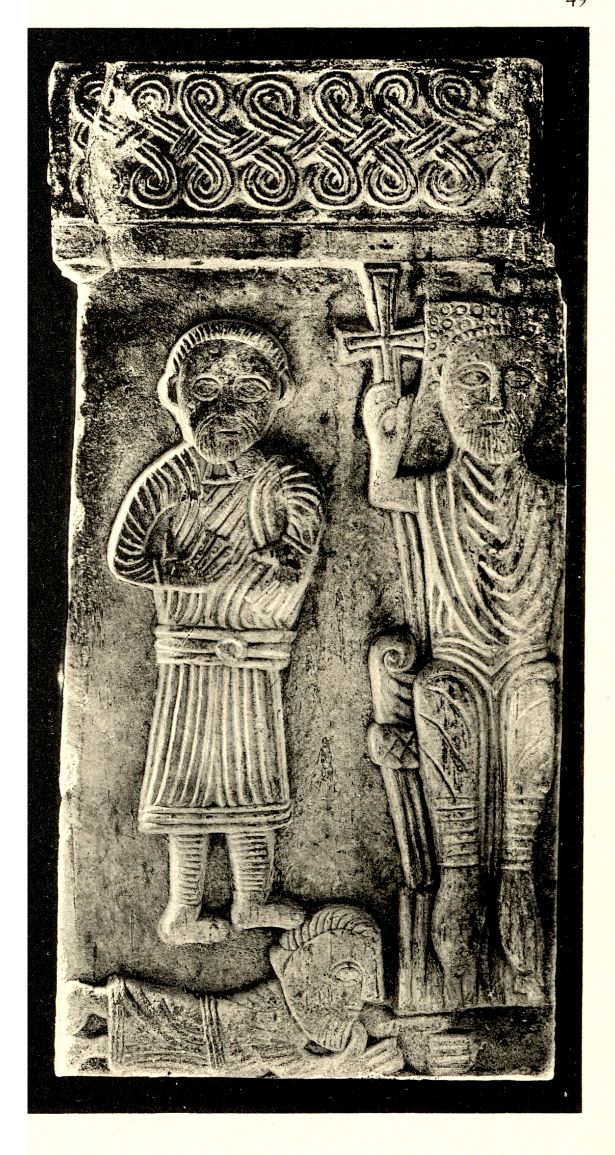 Denkmäler der Kunst in Dalmatien, Herausgegeben von Georg Kowalczyk, mit einer Einleitung von Cornelius Gurlitt. 132 Lichtdrucktafeln nach Naturaufnahmen des Herausgebers Georg Kowalczyk sowie nach Kupfern aus dem Werke von Robert Adam: Ruins of the Palace of the Emperor Diocletian at Spalat(r)o, 1764 Wien, 1910, Verlag von Franz Malota Scanprojekt Bundesdenkmalamt Österreich This scan or this PDF-file was created within the Austrian Wikipedia-project Denkmalpflege Österreich (German only) supported by Wikimedia Germany and Wikimedia Austria as part of the Wikipedia community-project to collect public domain documents from the library of the Heritage Monuments Board of Austria. This document describes or depicts an object which is located in Croatia today. Texts are written in German language. Send requests for uncompressed scans to Hubertl. This work is in the public domain in the United States, and those countries with a copyright term of life of the author plus 100 years or less. This file has been identified as being free of known restrictions under copyright law, including all related and neighboring rights.